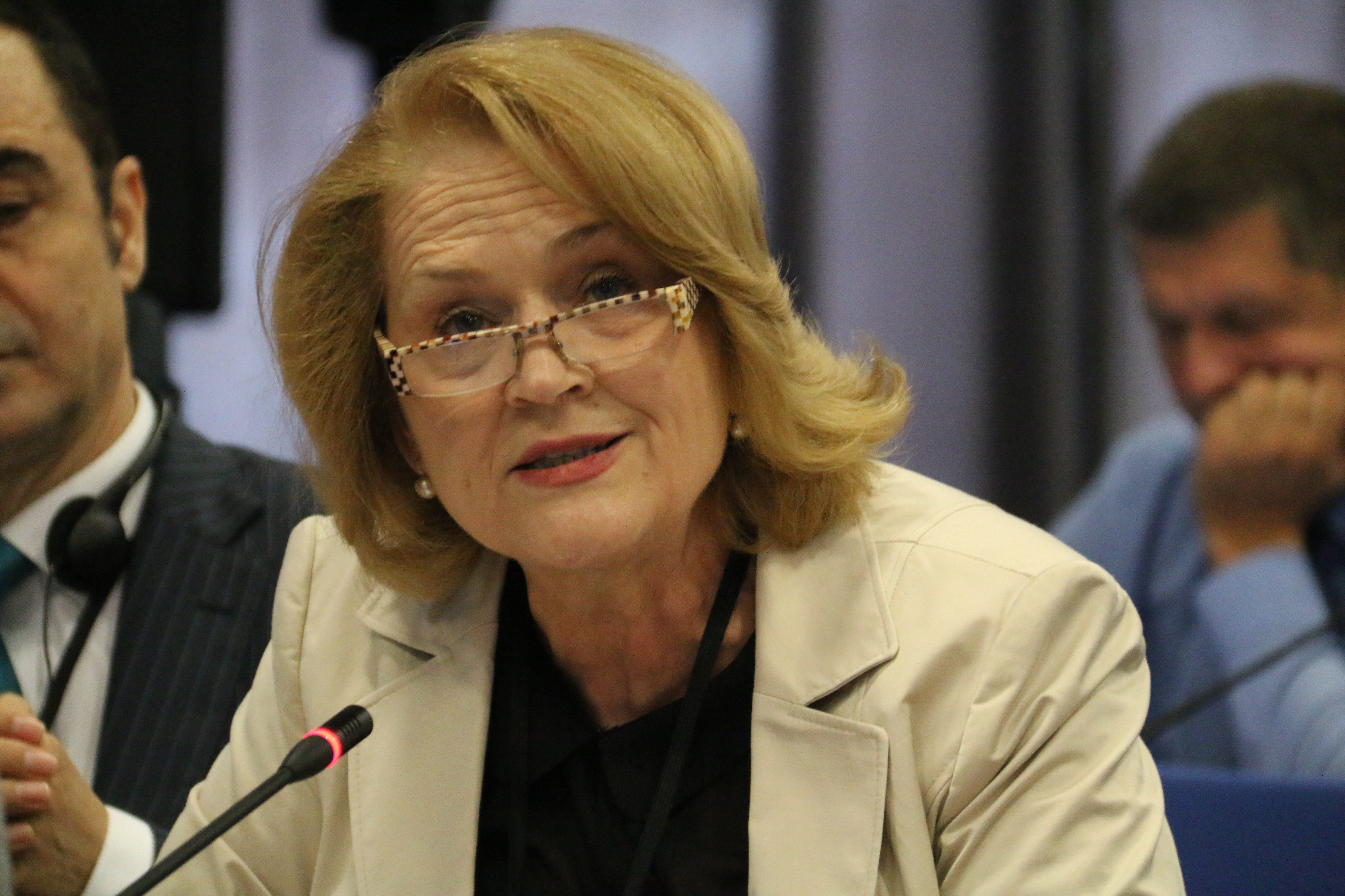 Arta Dade (Albania) during the 2016 Annual Session of the OSCE Parliamentary Assembly.